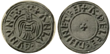 A penny minted at York in the reign of Amlaíb Cuarán (Anlaf Sihtricson). Obverse shows a Raven, reverse a cross. Obverse legend read as "ANLAF CYNYNG". Reverse names the moneyer, Æthelfrith. Weight 19.8 grains, 0.8 fine.